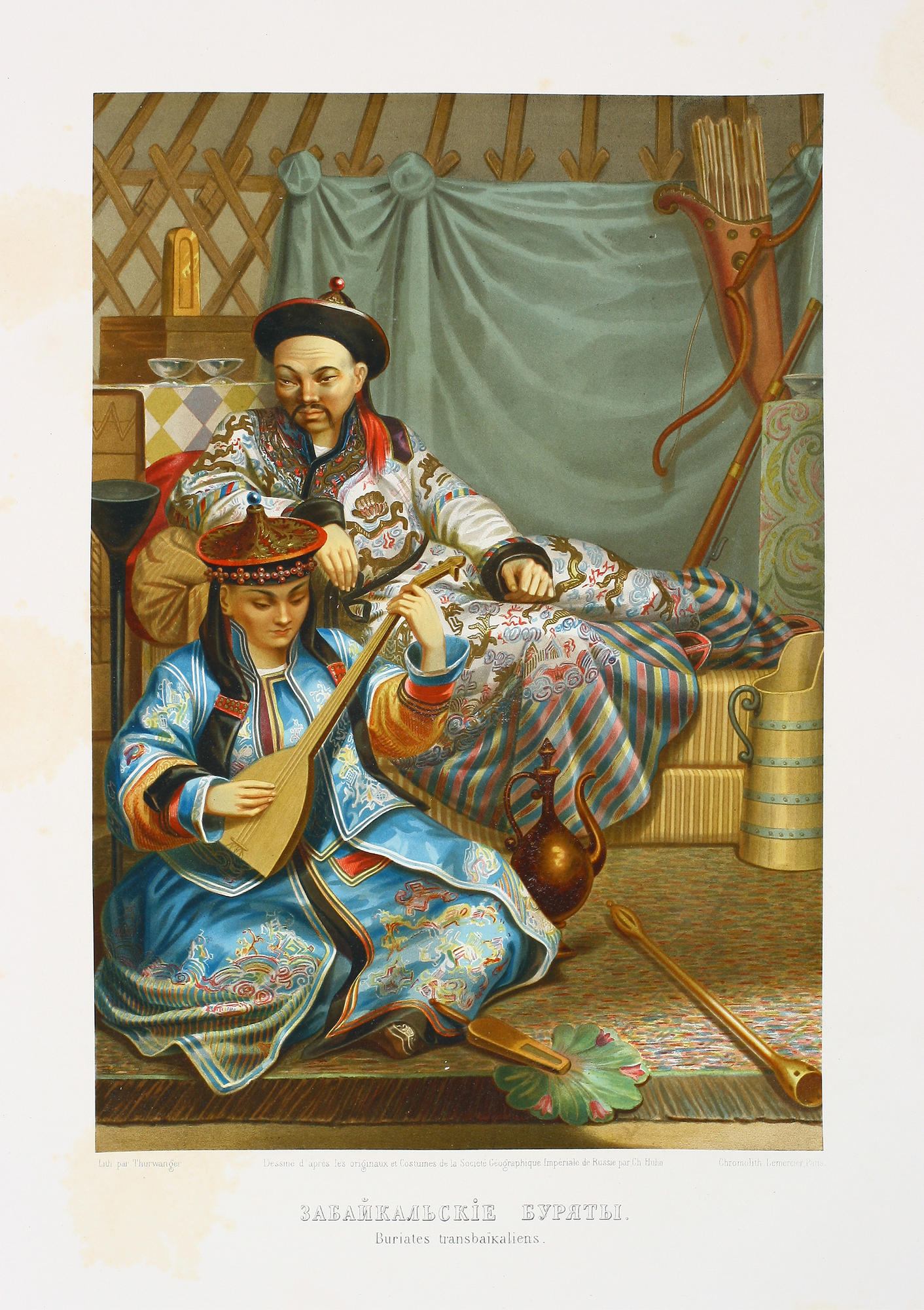 Zabajkal burjaten 1840